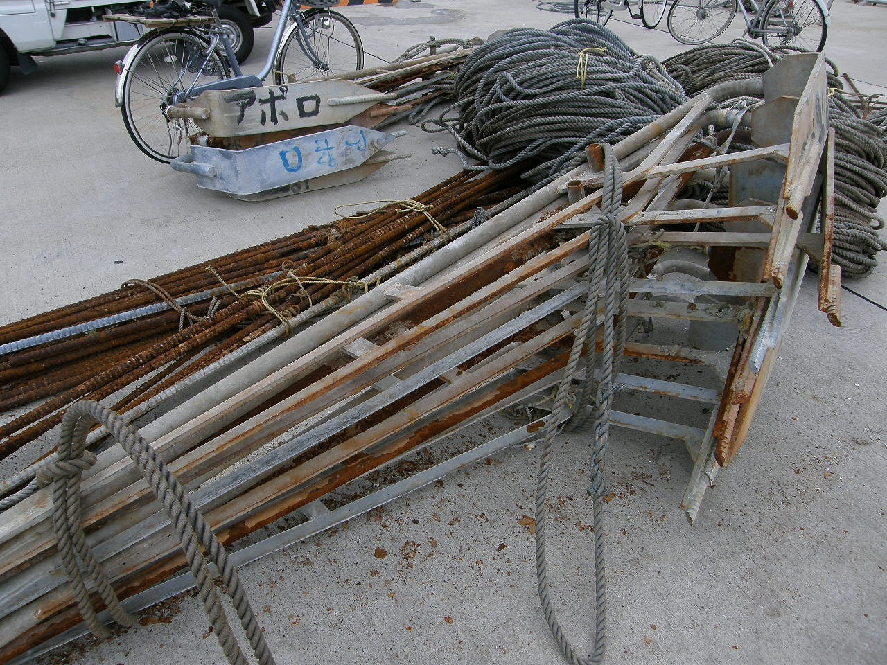 Anchor